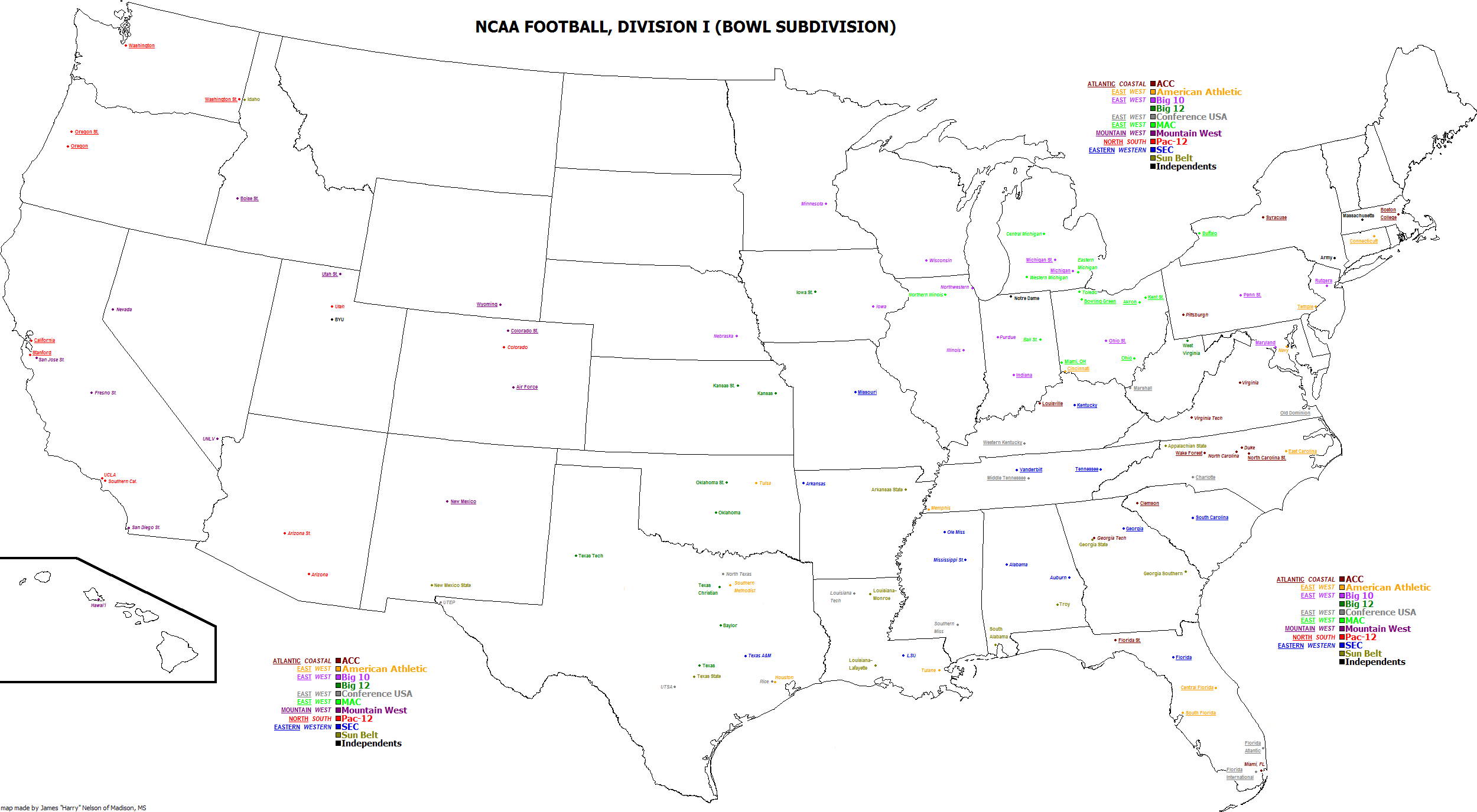 All 128 NCAA FBS football programs in the United States that competed in 2015, broken down by color into conferences and divisions.